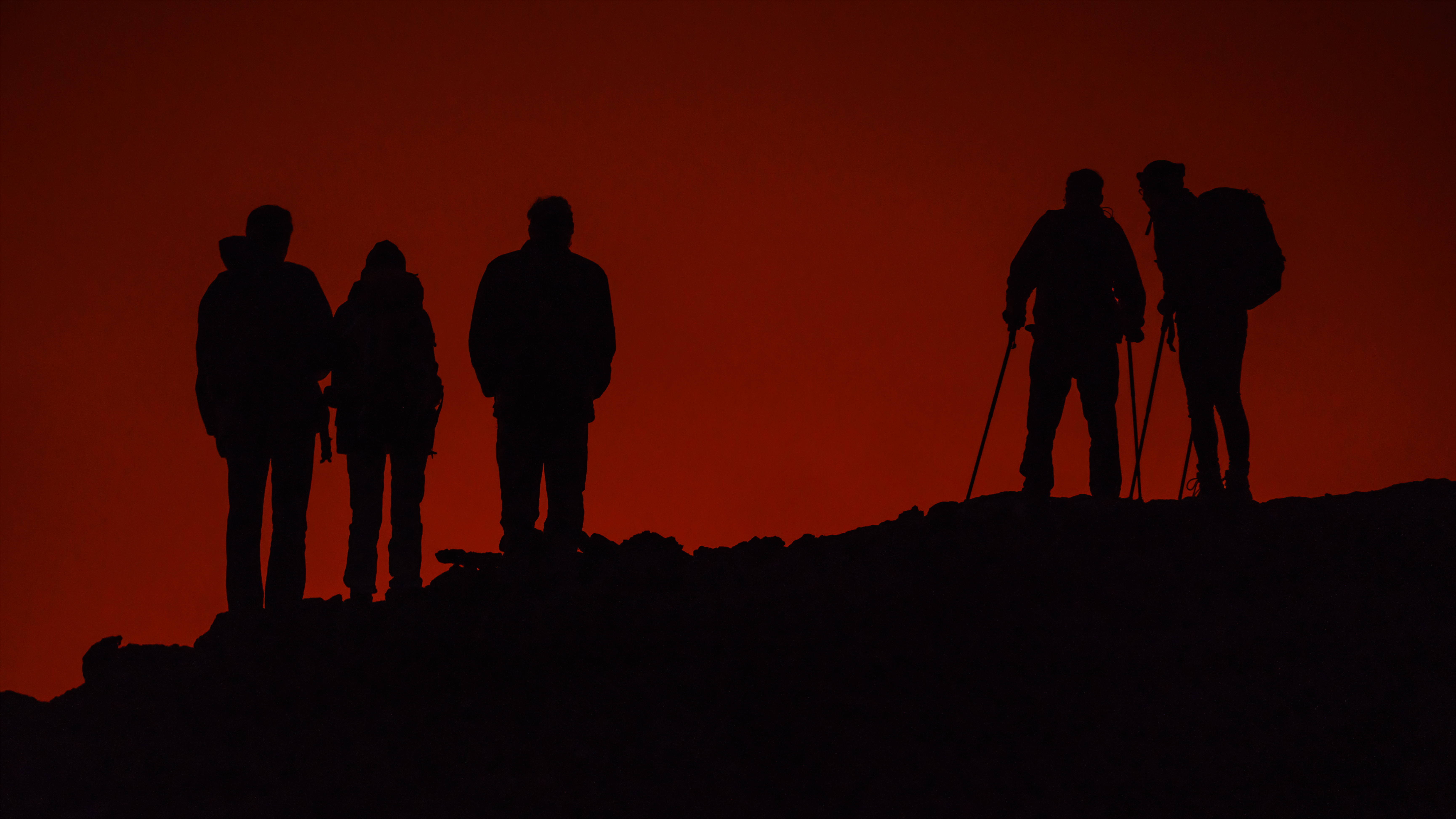 Tourists at the crater of Erta Ale volcano, Afar Region, Ethiopia